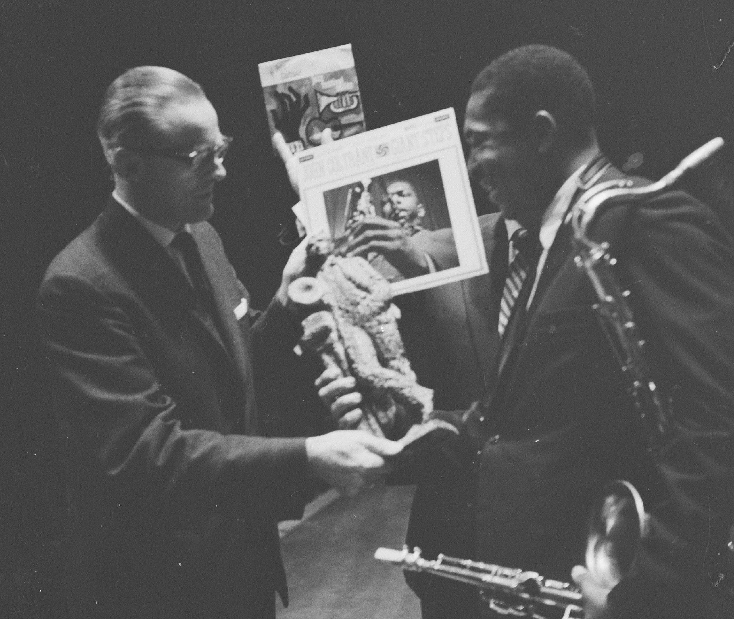 John Coltrane receives Edison Award (album Giant Steps), Concertgebouw, Amsterdam, the Netherlans, 20 November 1961